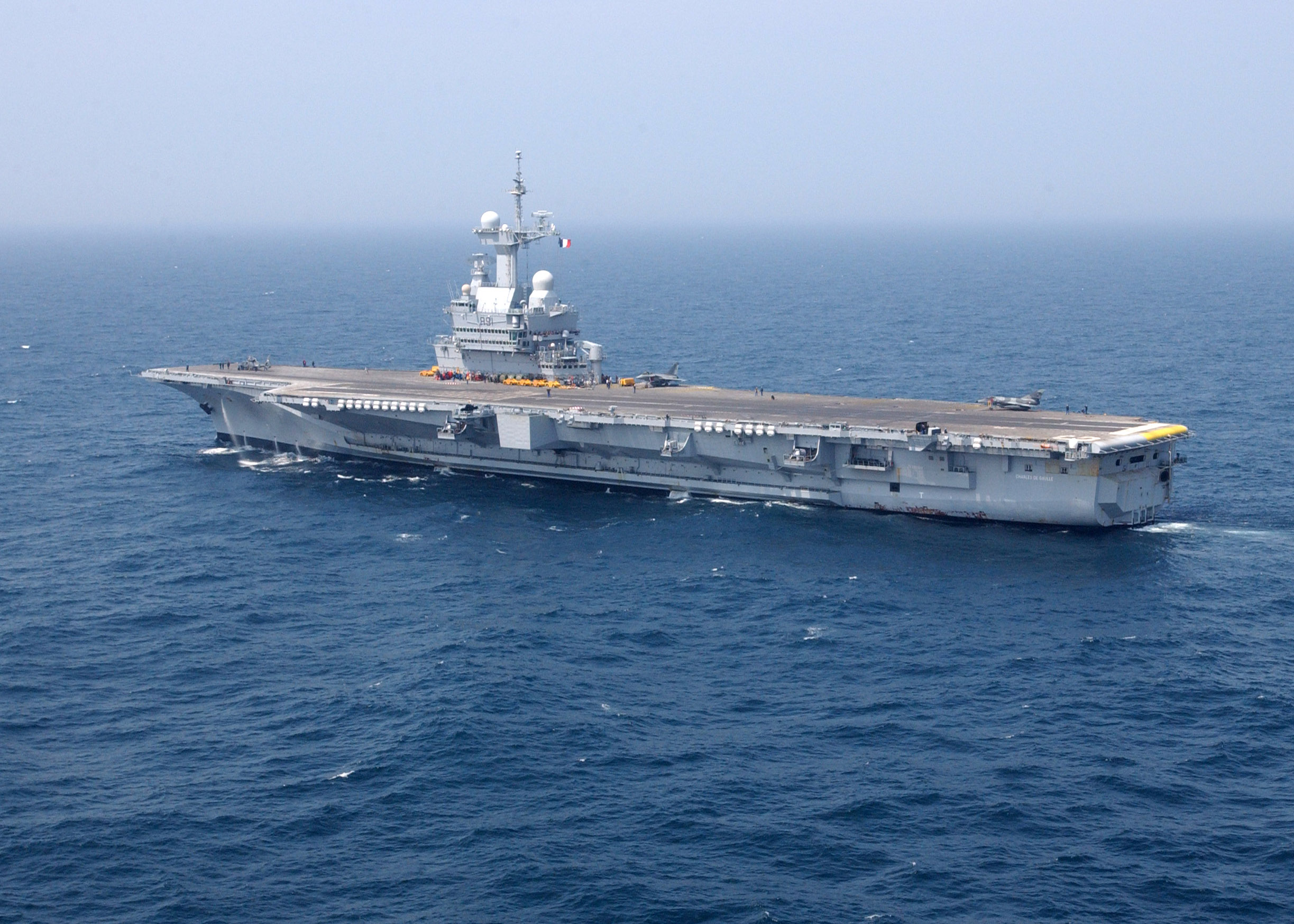 The French nuclear-powered aircraft carrier Charles de Gaulle shown operating in the Atlantic Ocean.